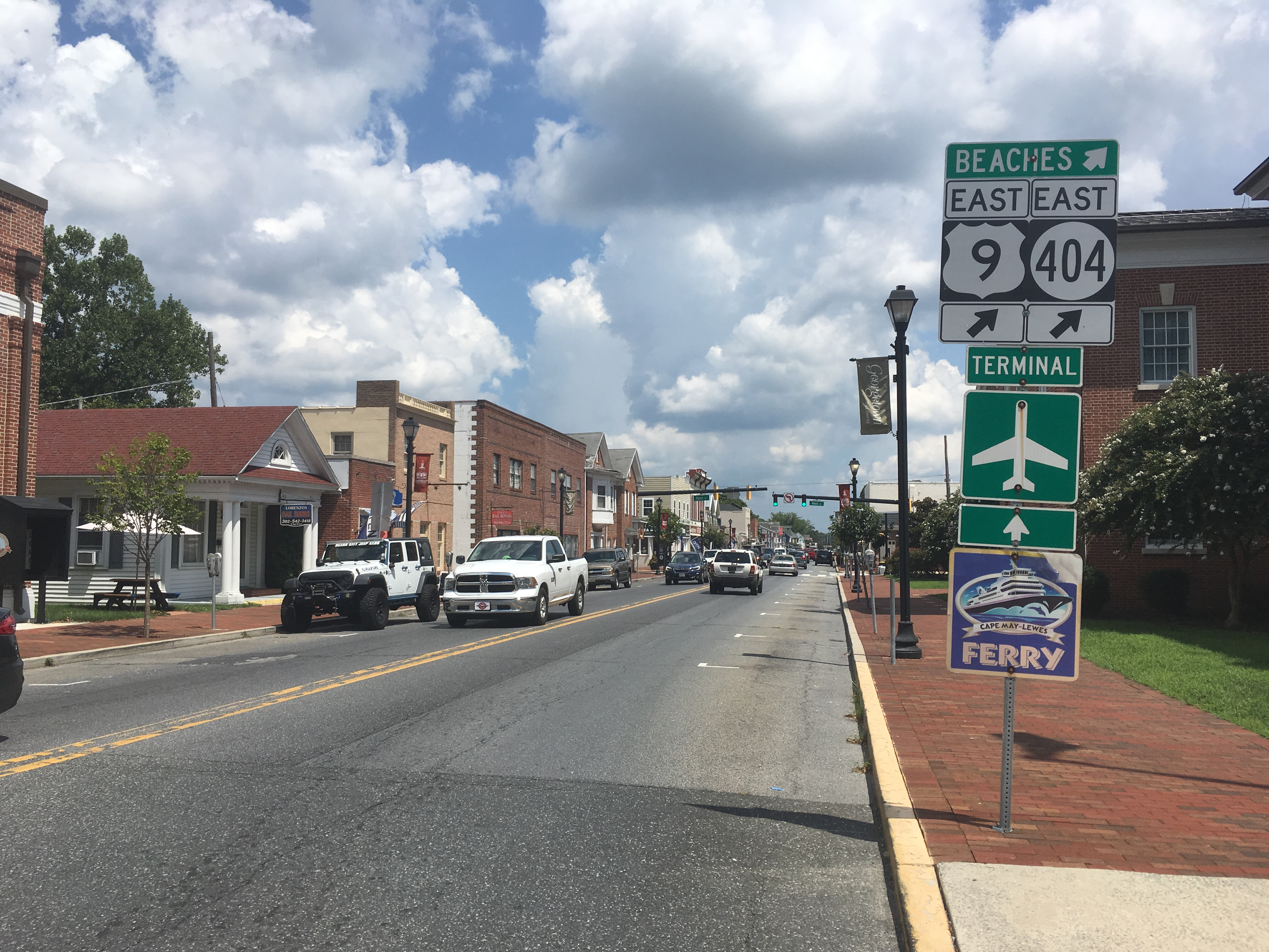 Eastbound U.S. Route 9/Delaware Route 404 (East Market Street) past The Circle, where it intersects the eastern terminus of Delaware Route 18 at Bedford Street, in Georgetown, Delaware